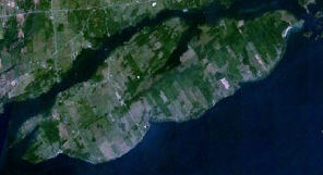 Satellite photo of howe island